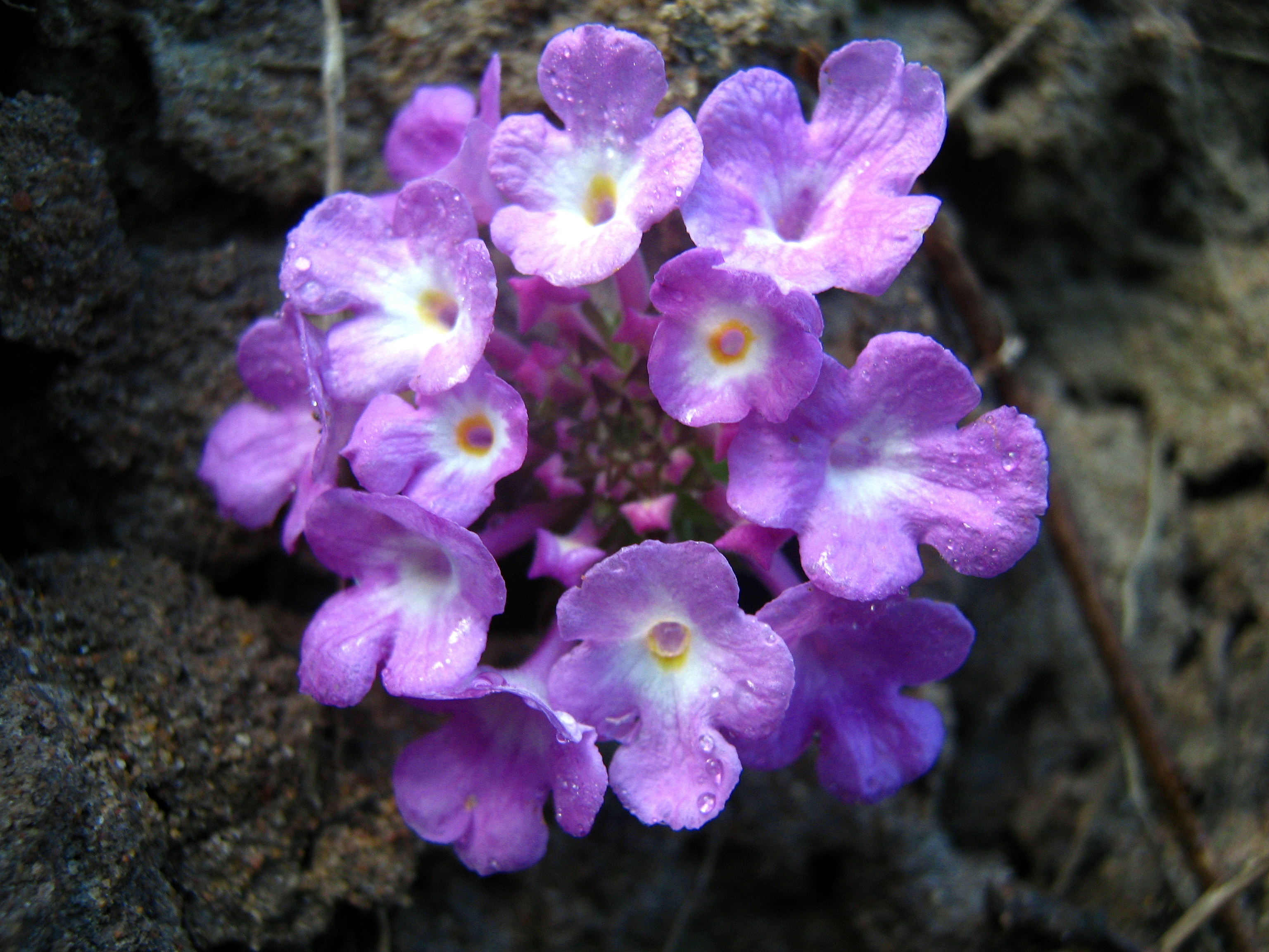 The flowers of Lantana montevidensis.